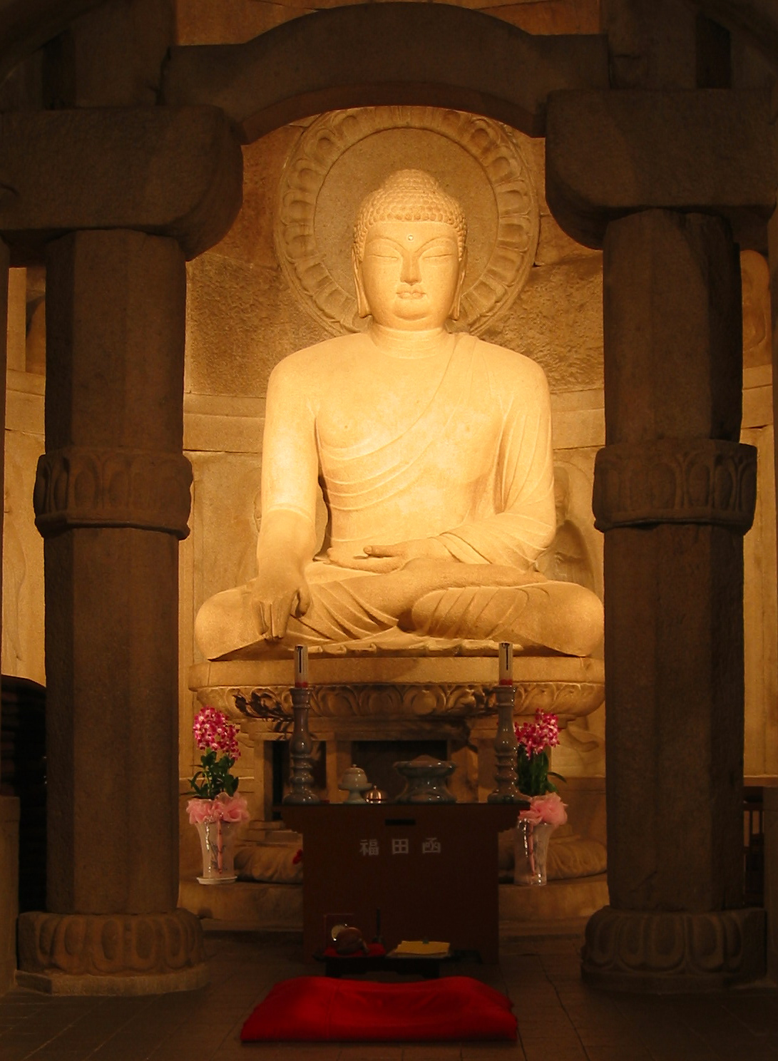 Buddha at Seokguram in South Korea, World Heritage picture